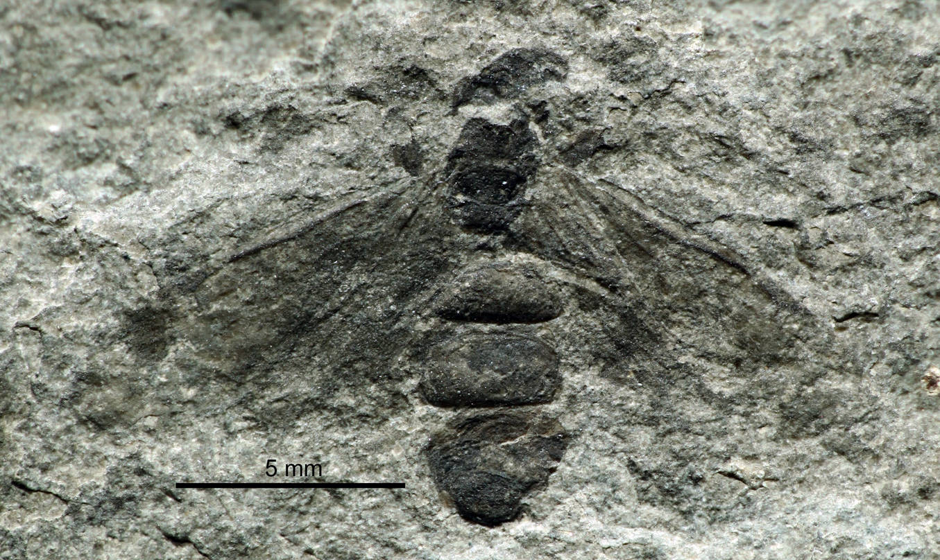 Dorsal view of a Liometopum imhoffii queen, formerly identified by Oswald Heer as holotype of Ponera affinis. Universalmuseum Joanneum Graz specimen UMJ77638. Universalmuseum Joanneum Graz, Styria, Austria. Burdigalian; Radoboj deposits; Radoboj area, Krapinsko-Zagorska, Croatia.